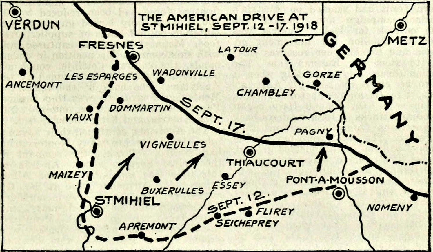 Map showing the battle lines for the American drive at St. Mihiel from September 12 - 17, 1918, during World War I.